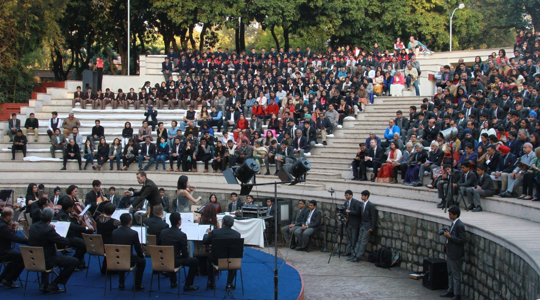 A performance in progress by the Symphony Orchestra of India at The Doon School, an all-boys boarding school in Dehradun, India.